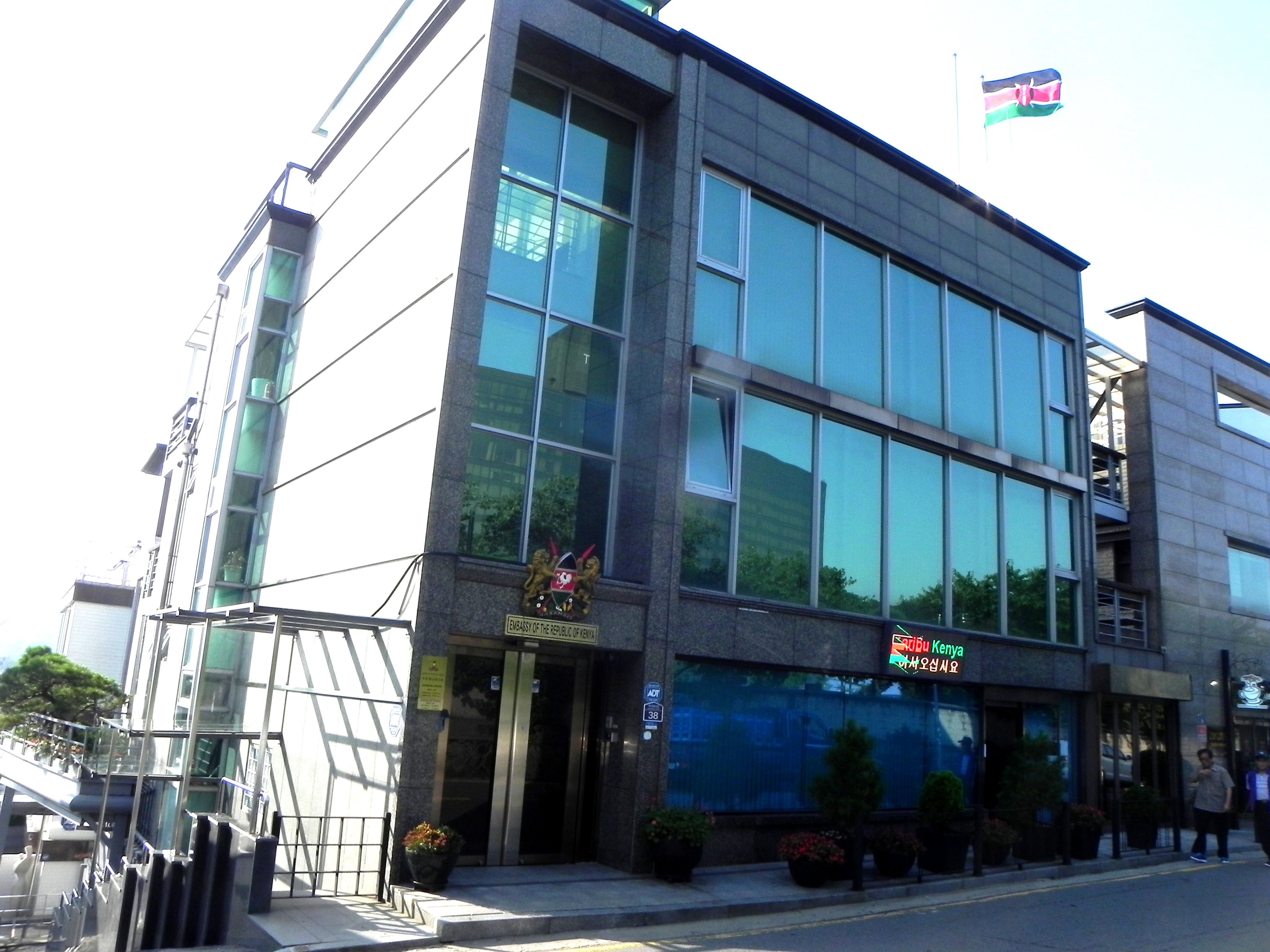 Embassy of the Republic of Kenya, Seoul, South KoreaKiswahili: Ubalozi wa Jamhuri ya Kenya, Seoul, Korea Kusini